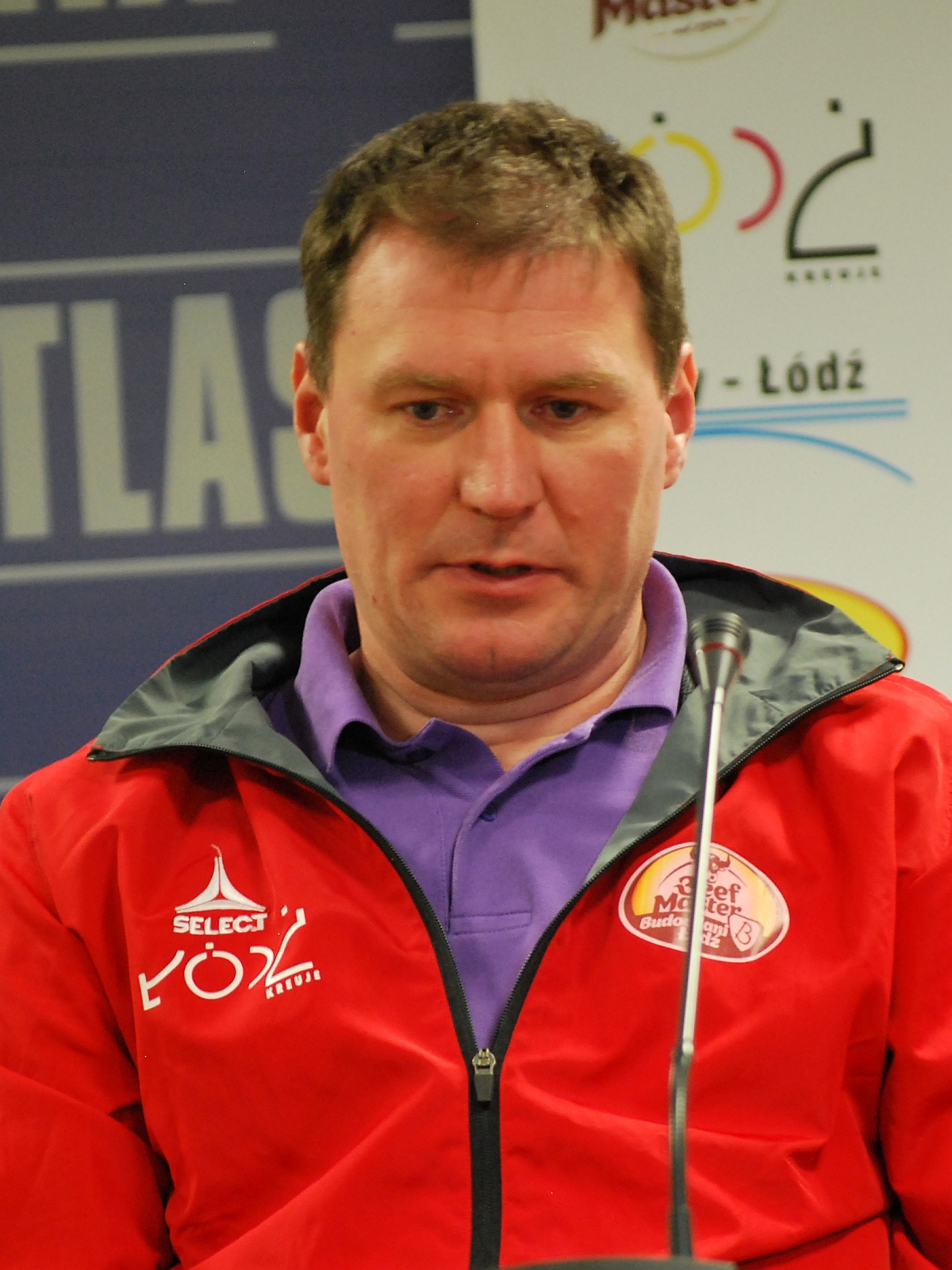 Adam Grabowski, volleyball coach from Poalnd